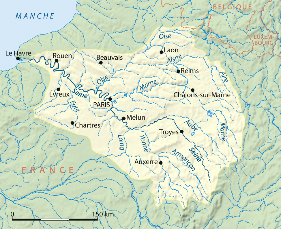 Drainage basin of Seine, French version